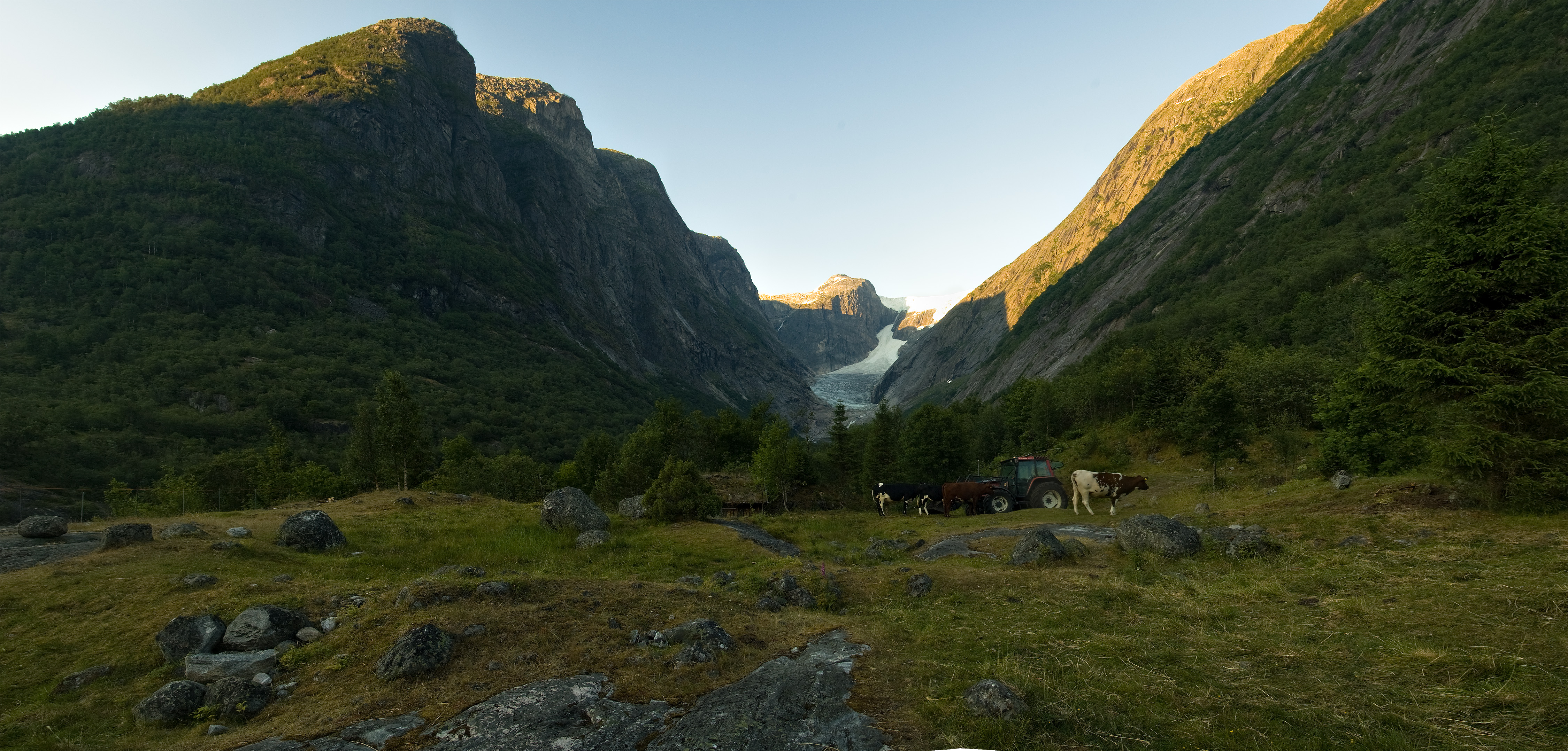 View of Brenndalsbreen in Oldedalen in Stryn municipality, Sogn og Fjordane, Norway.